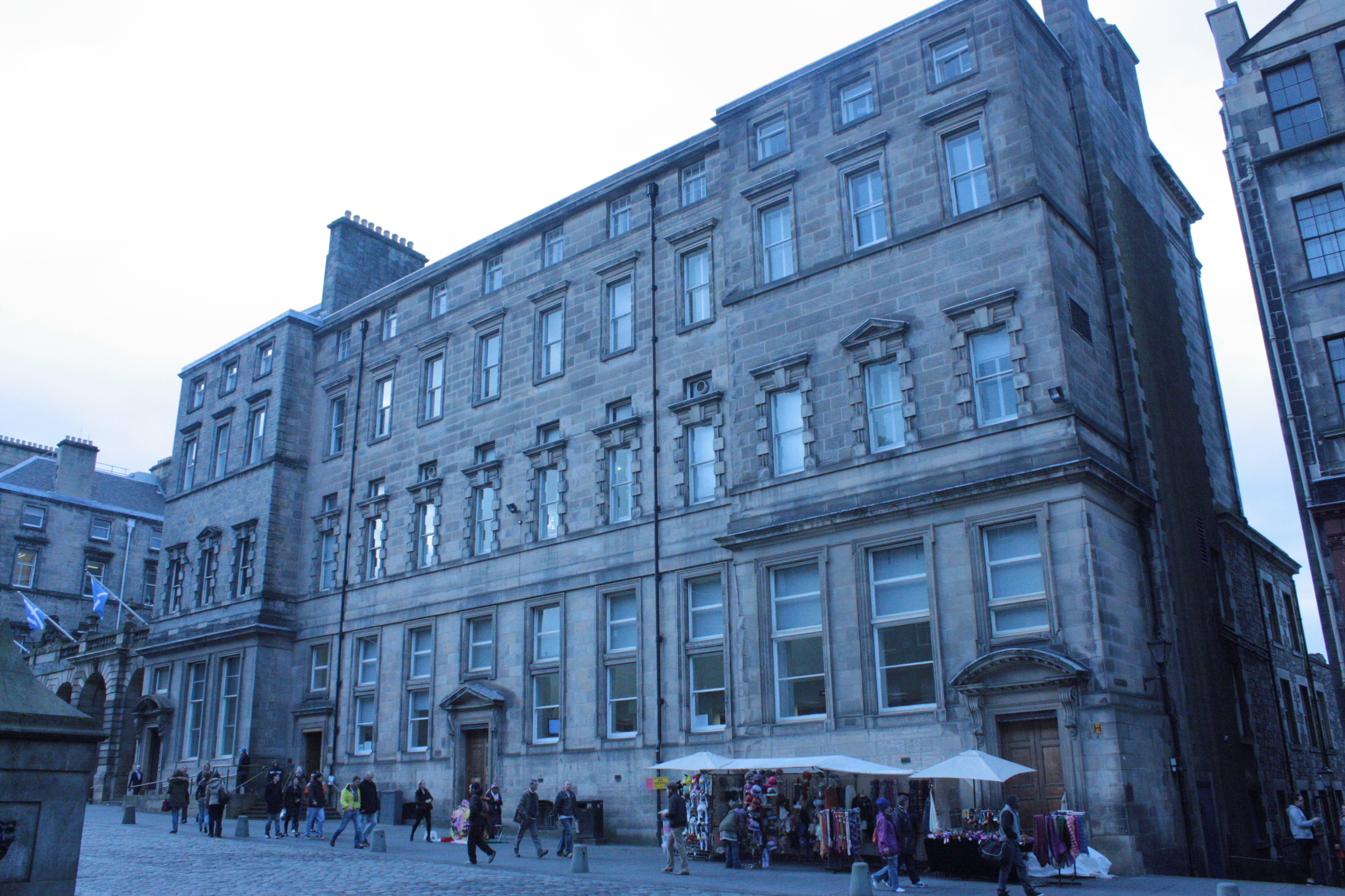 Edinburgh City Chambers (east wing) Royal Mile